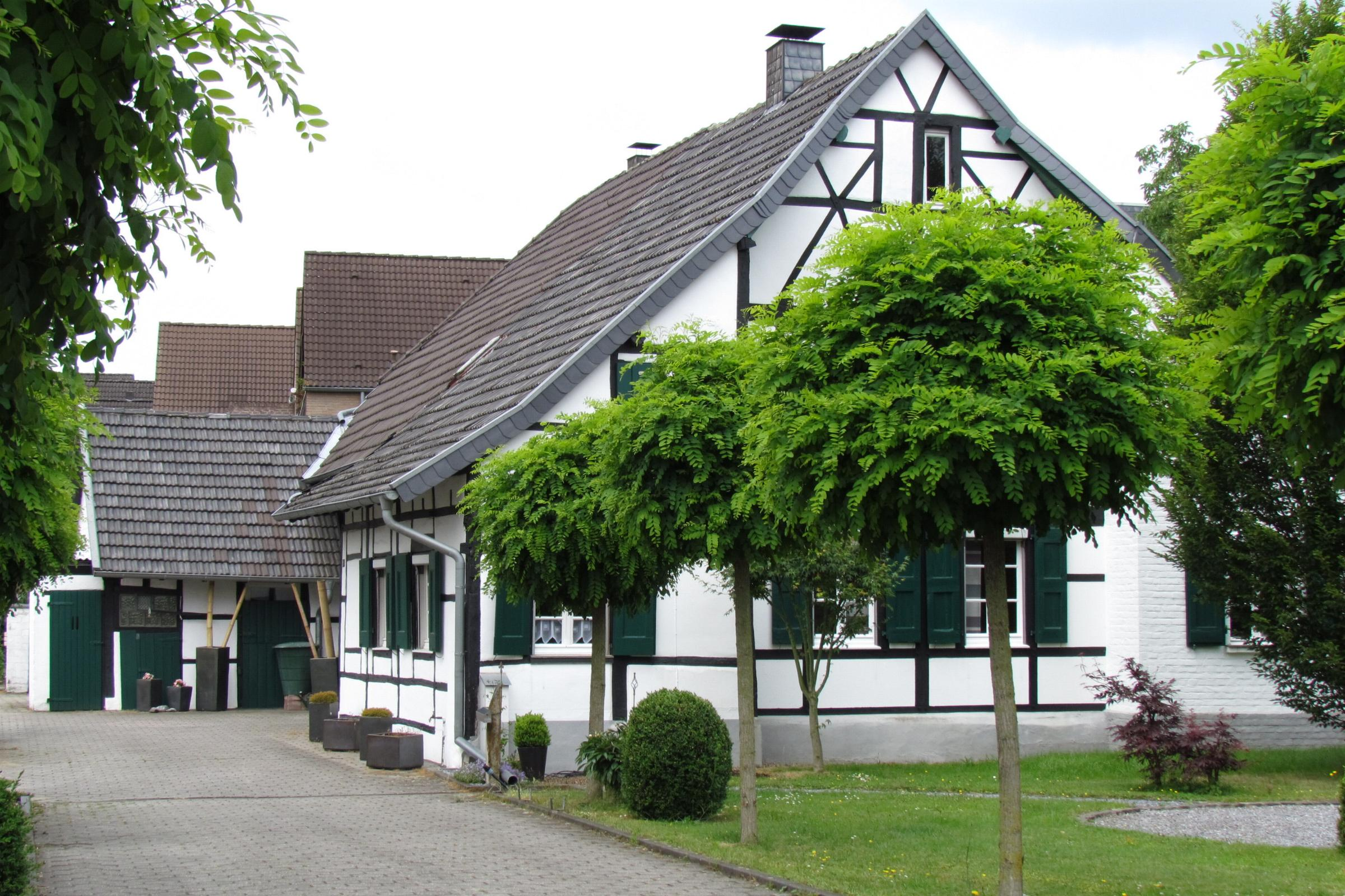 This is a photograph of an architectural monument.It is on the list of cultural monuments of Korschenbroich